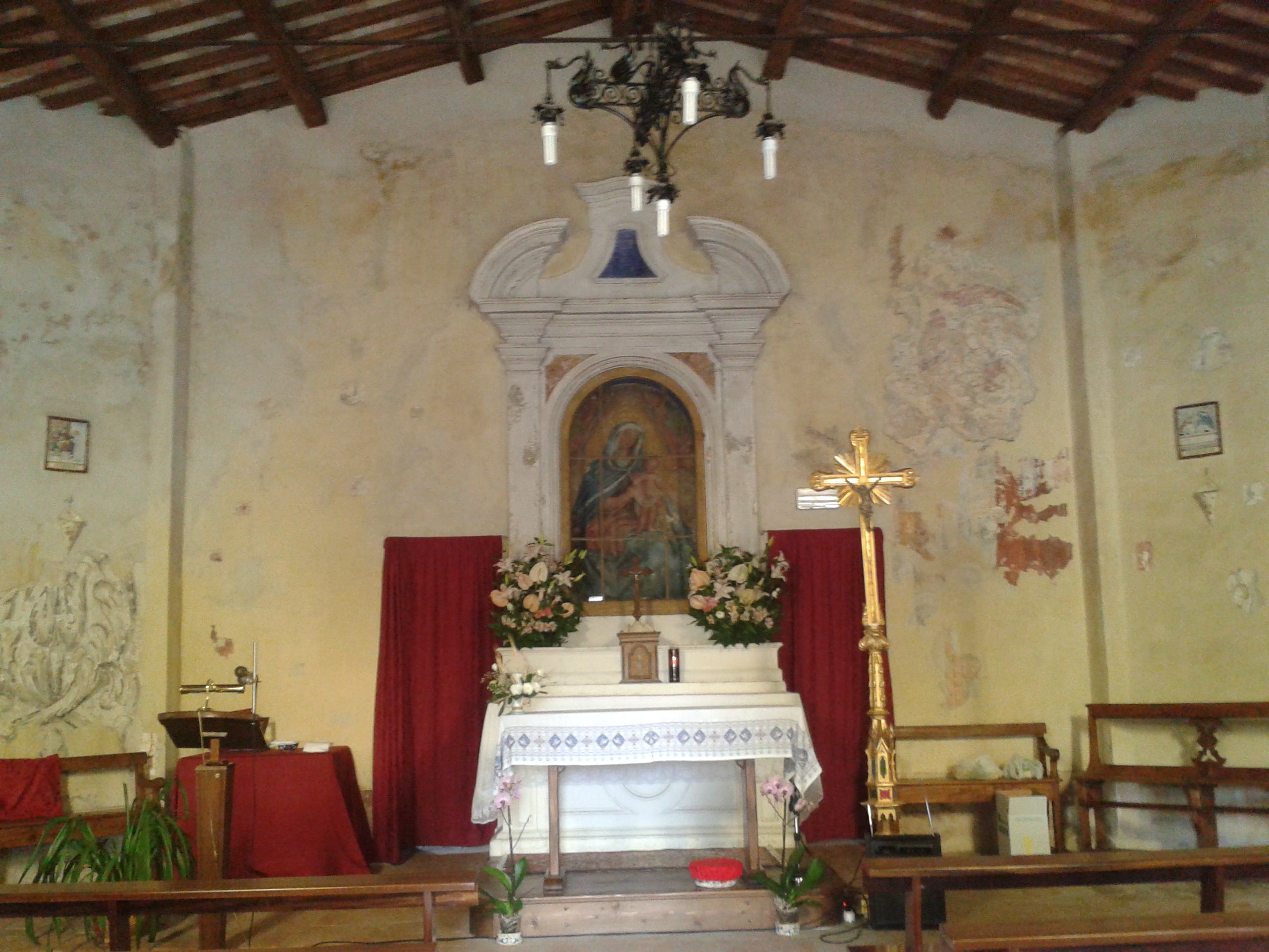 interno della chiesa della Madonna delle Piagge